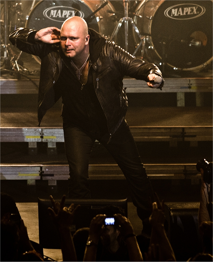 Michael Kiske (Unisonic, ex-Helloween) live with Avantasia in Brasil (2013)